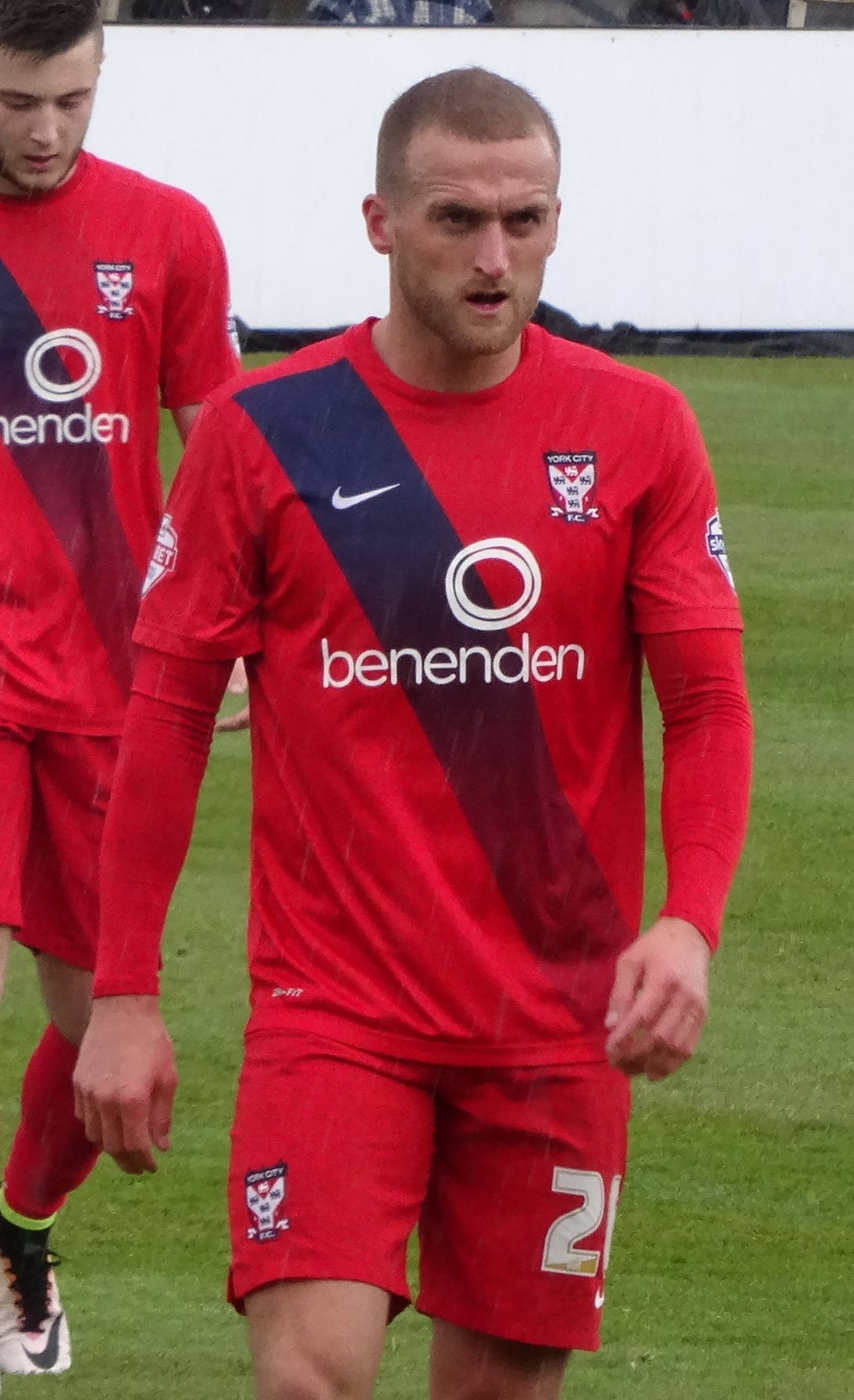 Lewis Alessandra playing for York City against Bristol Rovers at Bootham Crescent, York on 30 April 2016